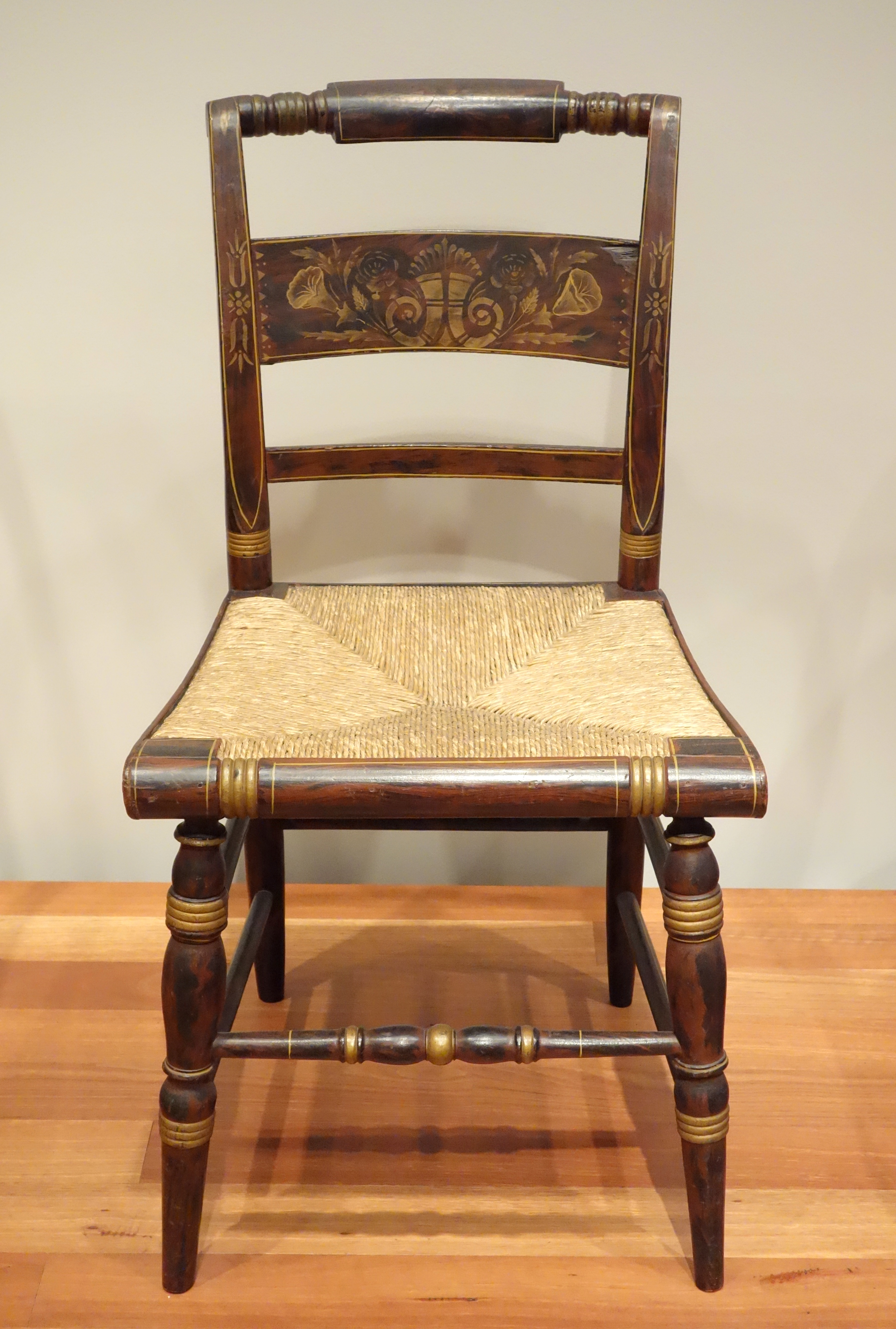 Exhibit in the De Young Museum, San Francisco, California, USA. This artwork is in the public domain because the artist died more than 70 years ago.